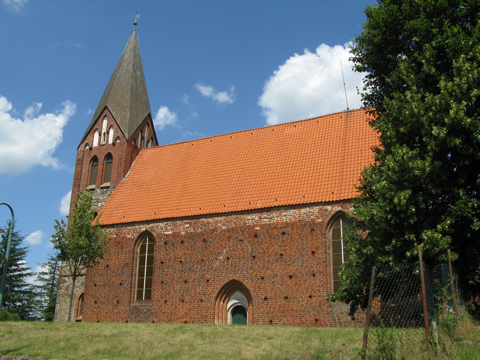 Church in Dobbin, district Rostock, Mecklenburg-Vorpommern, Germany